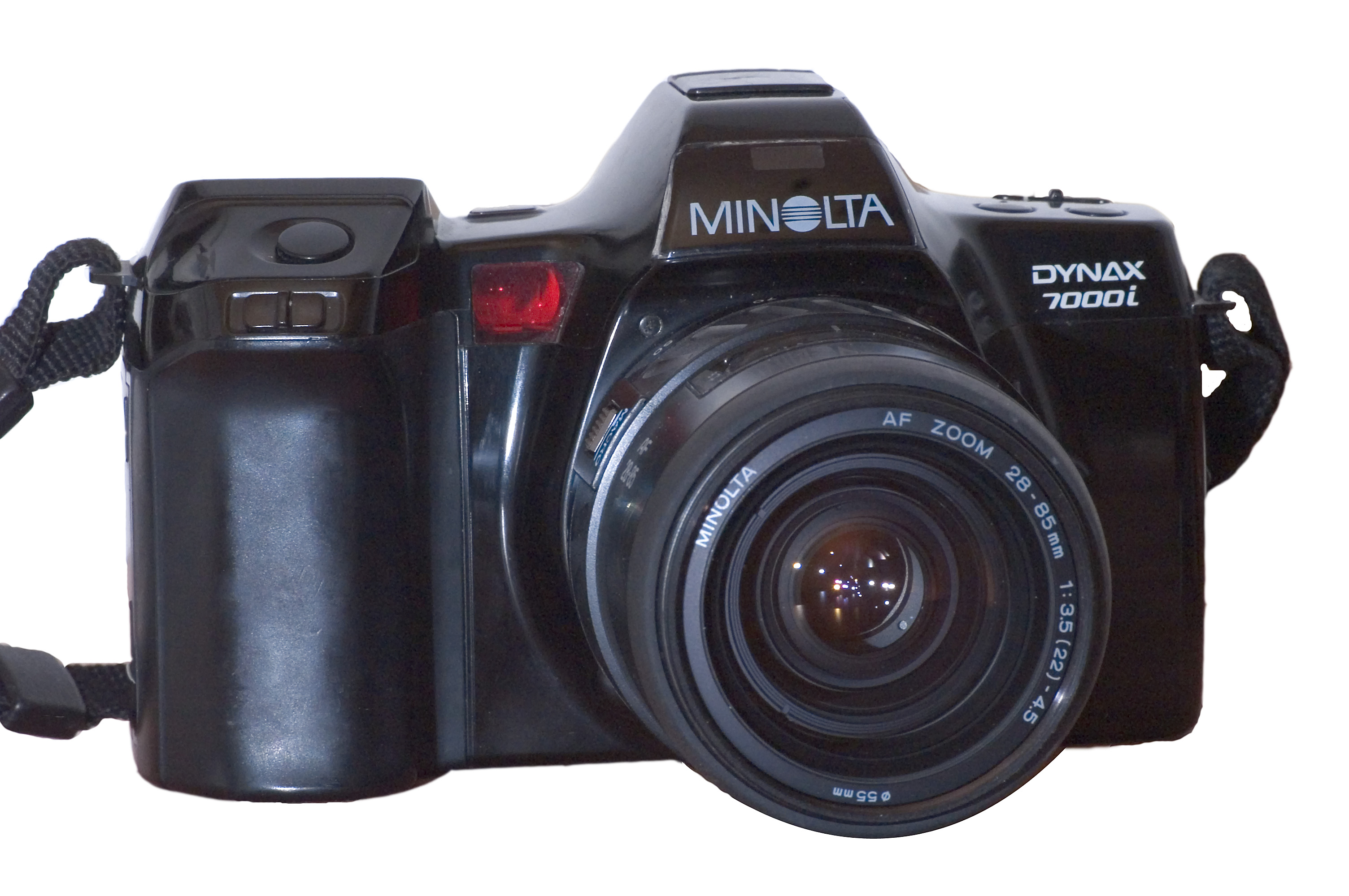 Minolta Dynax 7000i with 28-85mm AF lens. Author: Fanny Schertzer